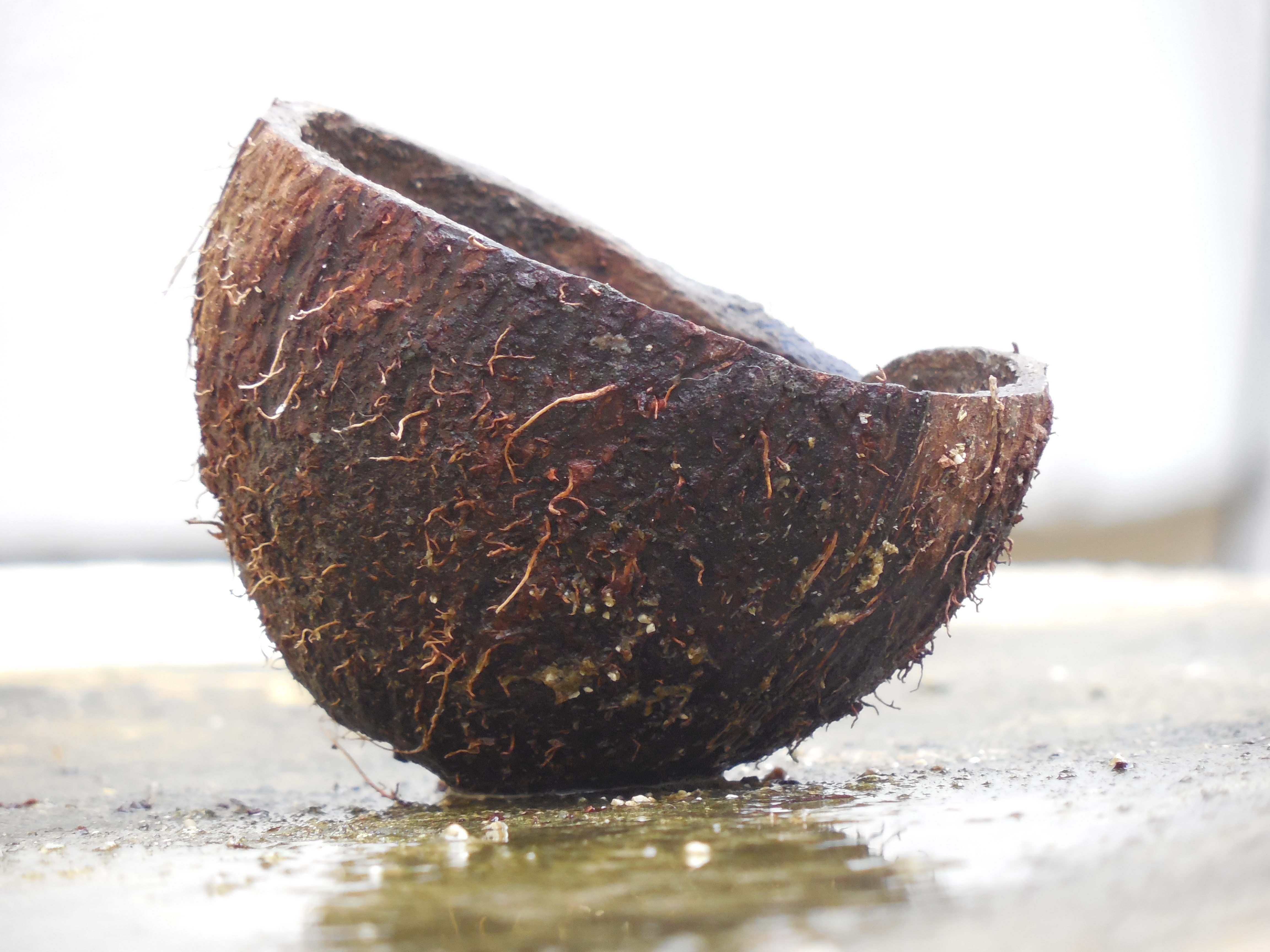 A cut coconut shell in India.